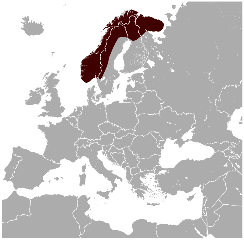 Geographical distribution of the Norway Lemming Lemmus lemmus. The map was created using the Generic Mapping Tools, GMT, version 5.1.1.